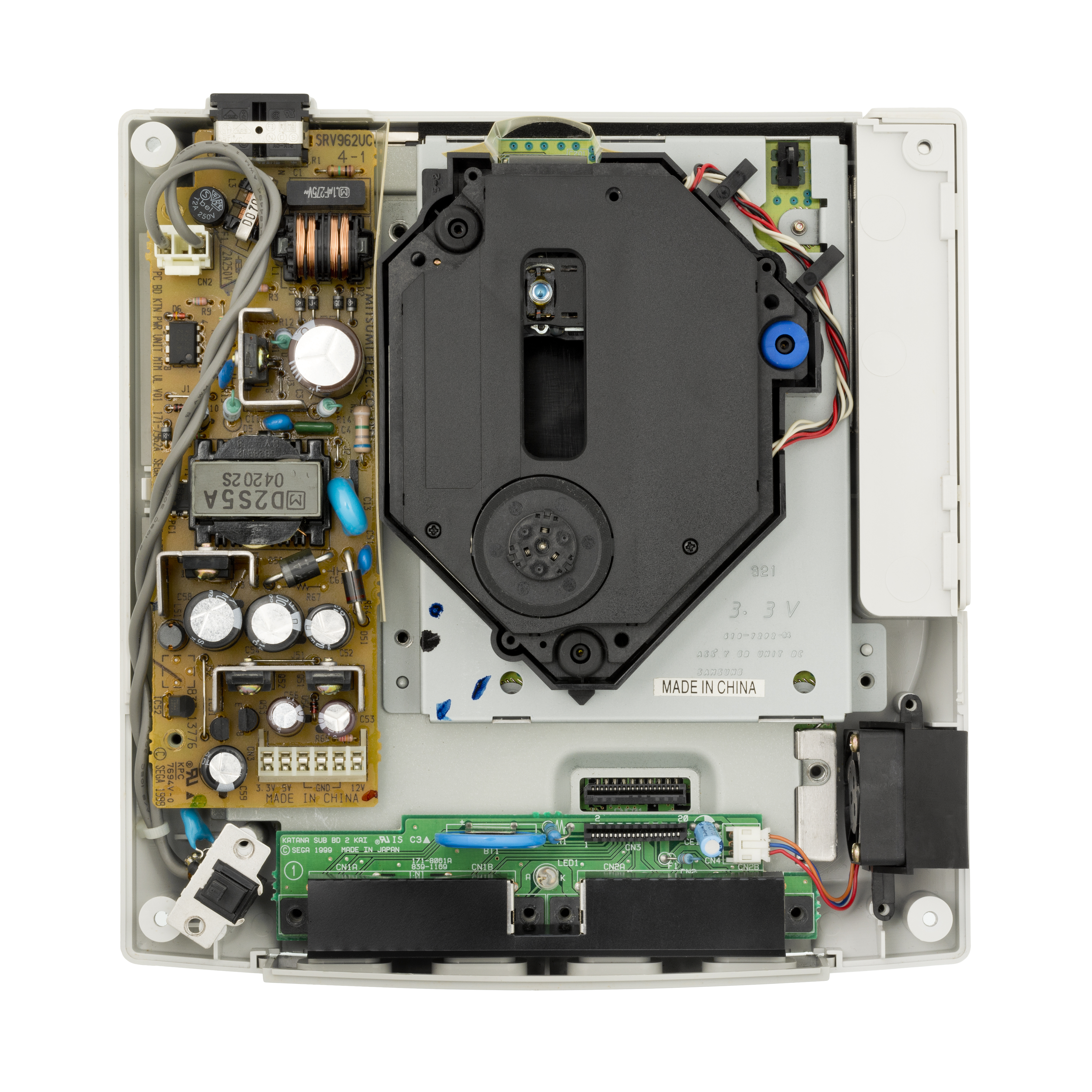 The internals of a North American Sega Dreamcast, showing power supply, GD-Rom motor, etc.